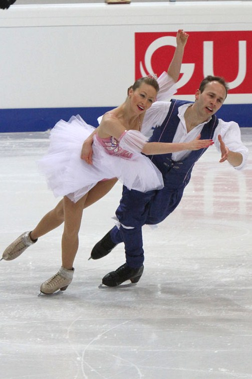 Nelli Zhiganshina / Alexander Gazsi at the 2011 European Figure Skating Championships